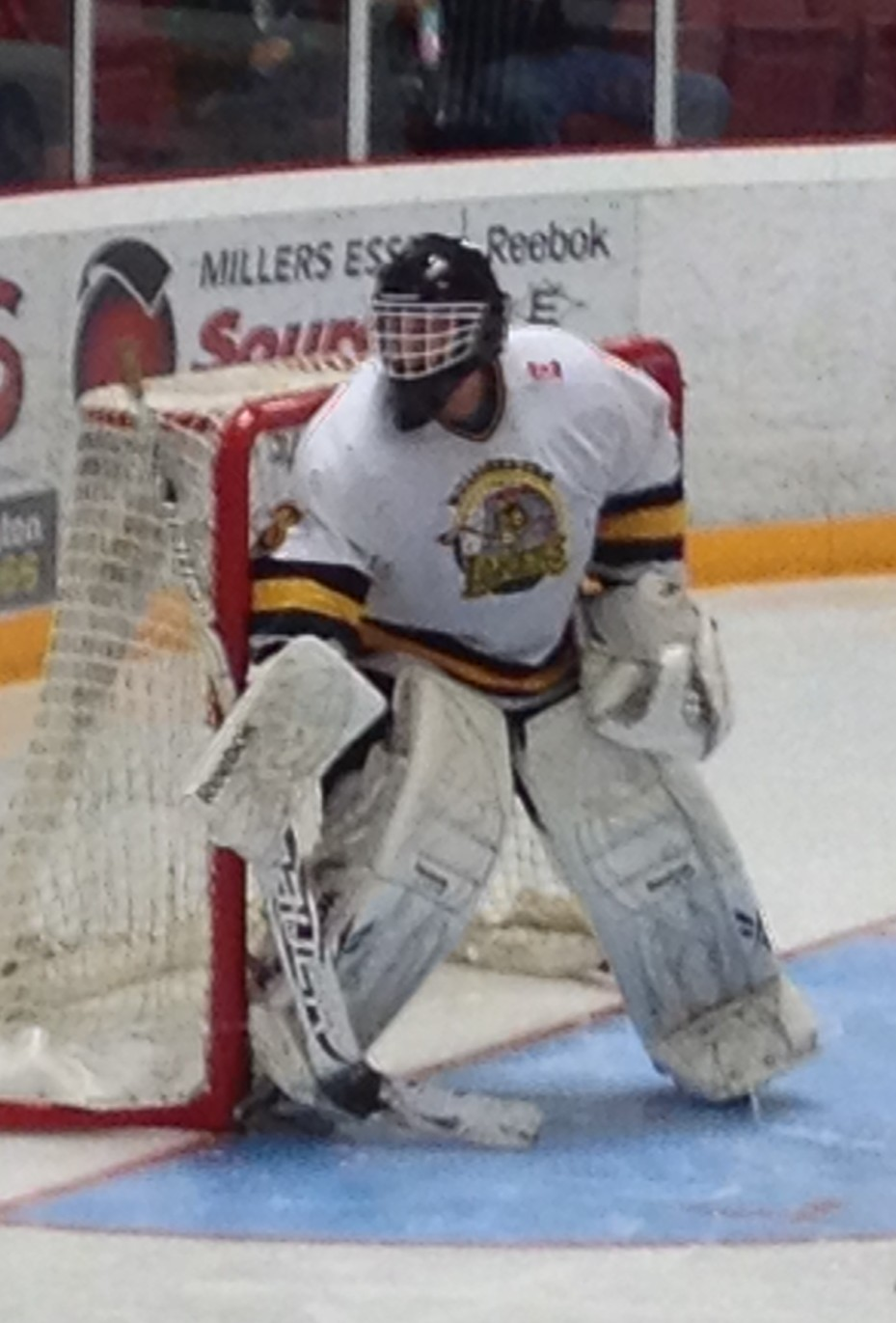 These images of GLJHL action are taken by Devan Mighton.